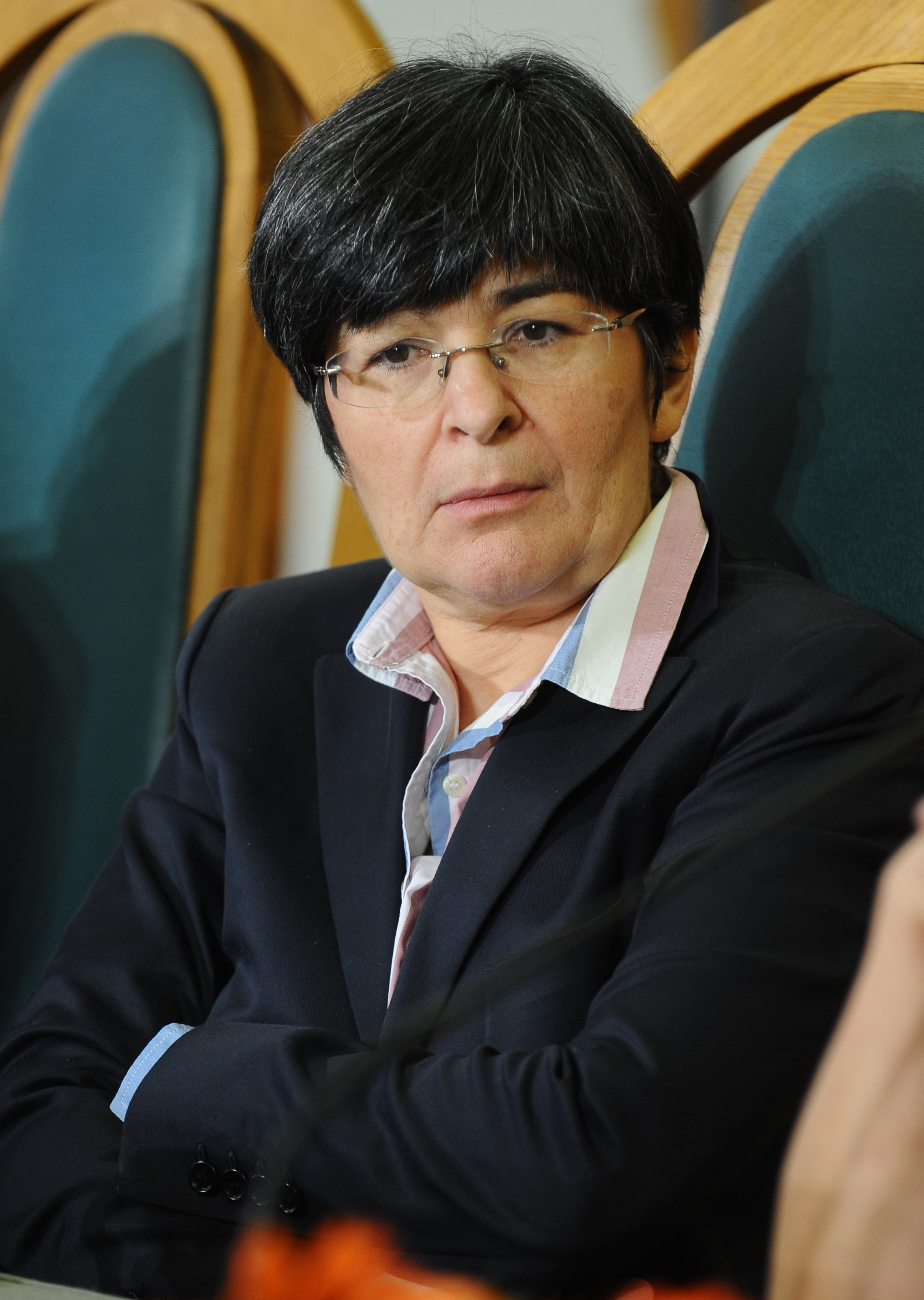 Maria Cecilia Guerra at the Festival of Economics 2012 in Trento